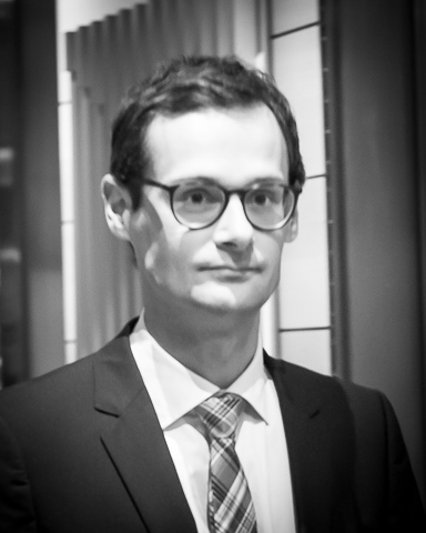 Fredrik Färber at Governor Øystein Olsen's annual address in February 2016